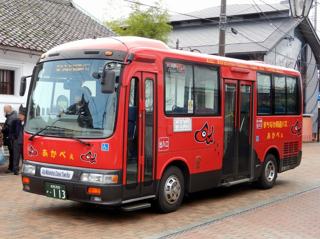 Aizu Bus Hino Liessefor Aizu Wakamatsu city roop bus "Akabe"